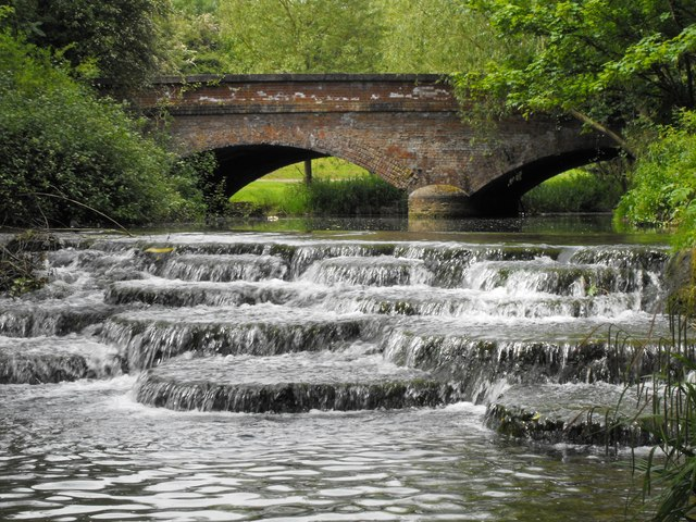 The 'Flosh' & Lords Bridge, Buckingham This weir on the river Ouse is related to Town Mill. The road crossing the Lords Bridge is Hunter St. which leads to the 'prebend end beyond the water'. The weir and mill now fall within Buckingham University's Hunter Street campus.